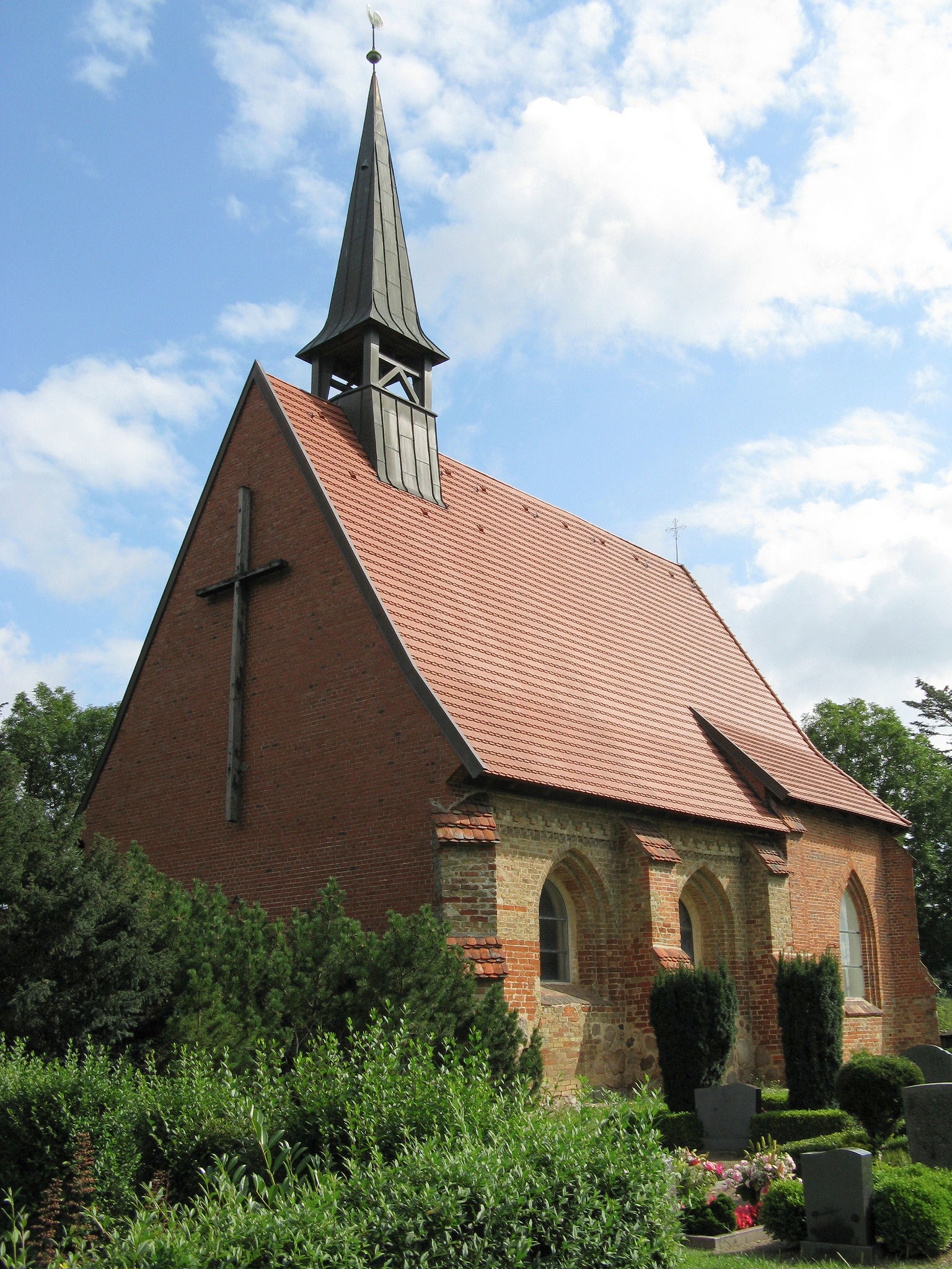 Church in Hohen Luckow, disctrict Bad Doberan, Mecklenburg-Vorpommern, Germany